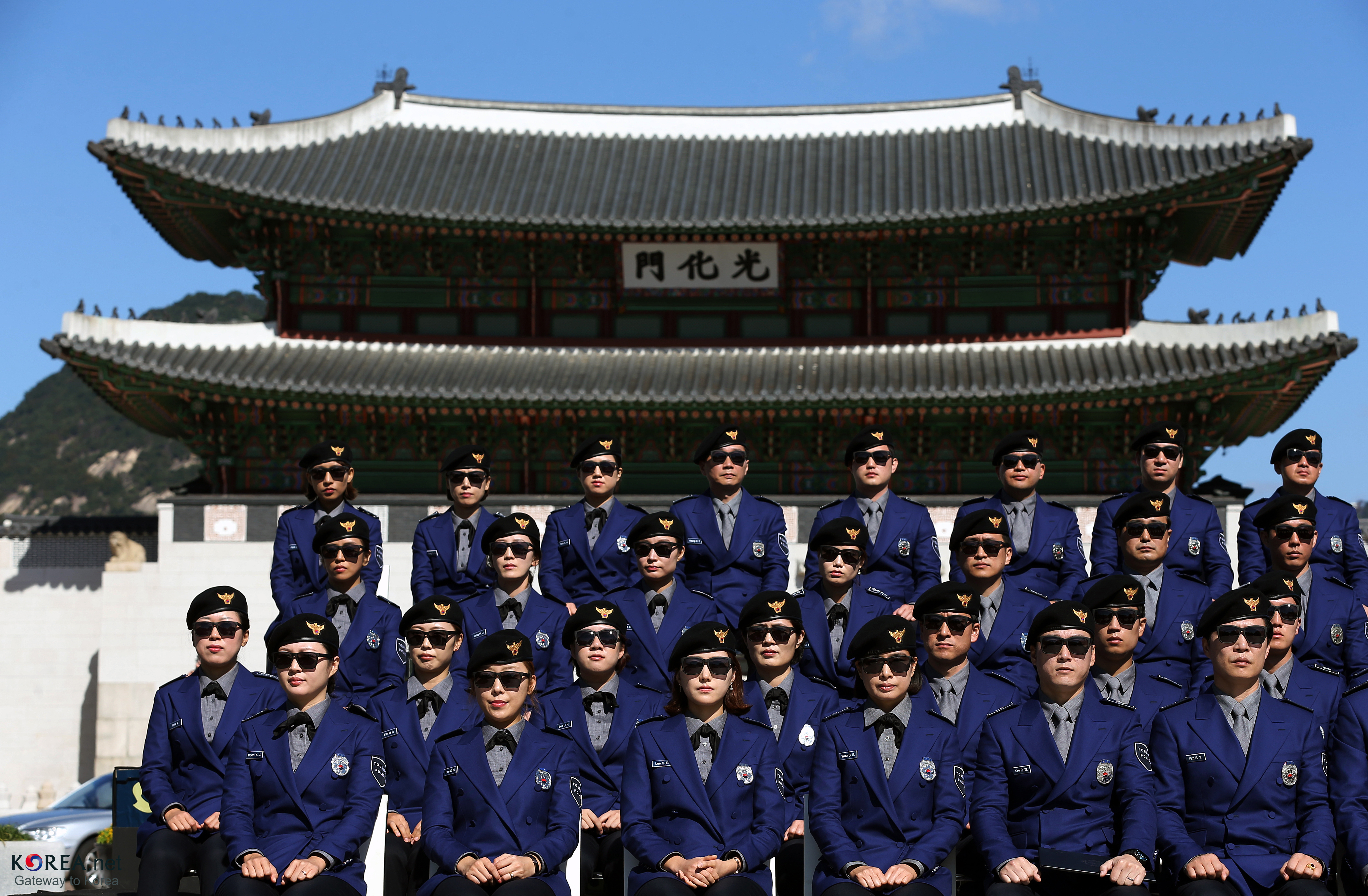 Tourist Police Inauguration Ceremony 2013.10.16. Gwanghwamun Square, Seoul Ministry of Culture, Sports and Tourism Korean Culture and Information Service ( JEON HAN 관광경찰 출범식 광화문광장, 서울 문화체육관광부 해외문화홍보원 코리아넷 전한